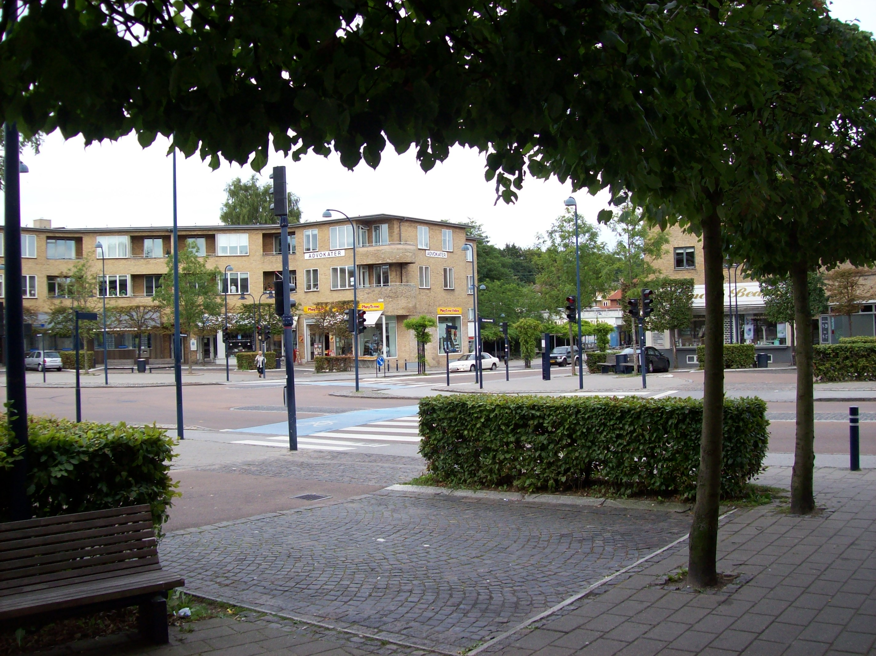 c 2008, Niels Elgaard Larsen Virum